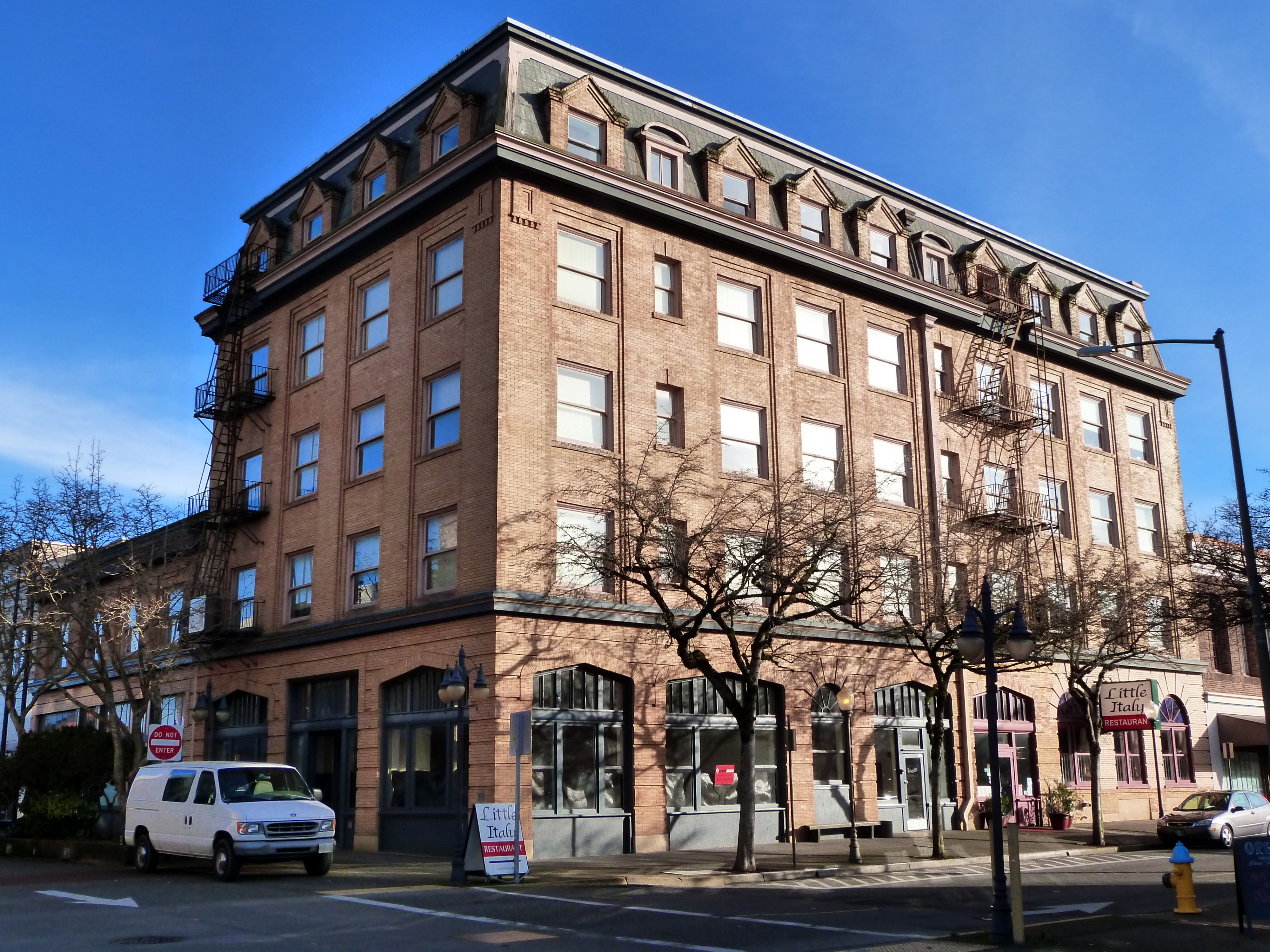 The historic Chandler Hotel and Annex (built 1909), located at 187 Central Avenue in Coos Bay, Oregon, United States, is listed on the US National Register of Historic Places.